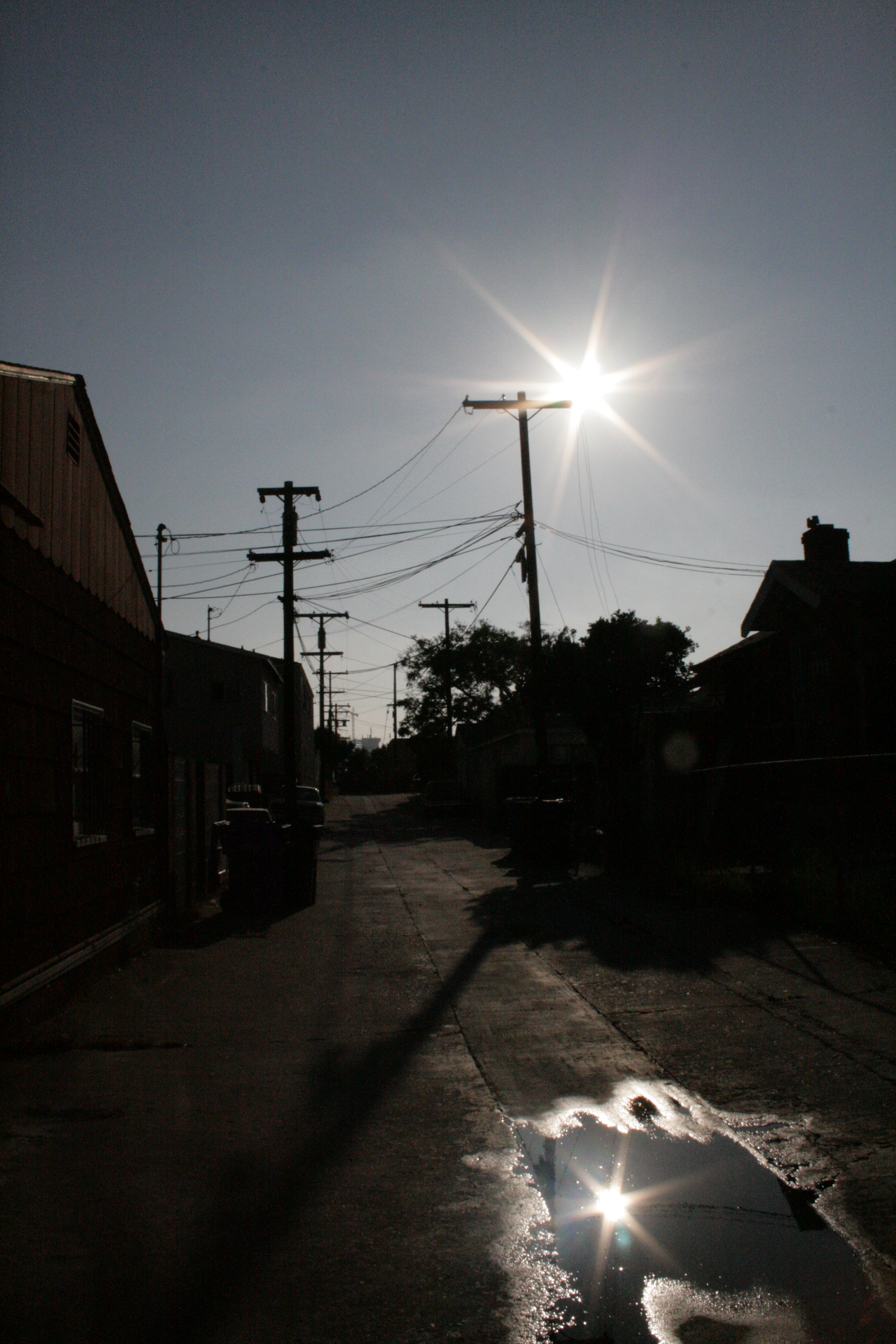 Golden Hill Reflection in San Diego, California